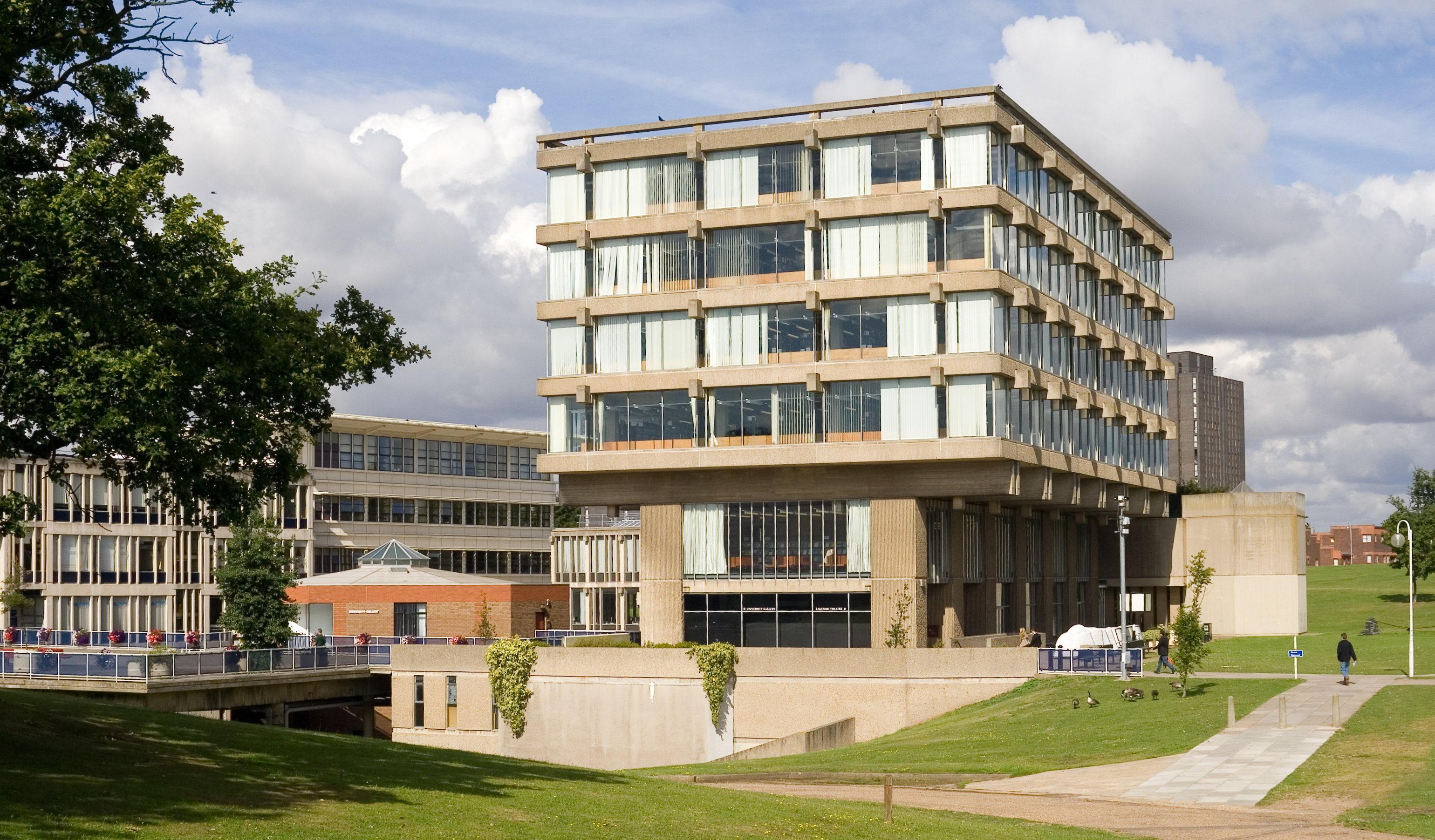 The University of Essex (in Colchester) was created in the 1960's, hence there's a lot of rectalinear concrete architecture like the library sticking up on the right. Very different from the red brick campus of the University of Birmingham (where we spent our sabbatical seven years ago). A nice place, though, and so far everyone's been very helpful and friendly as we get things sorted out.